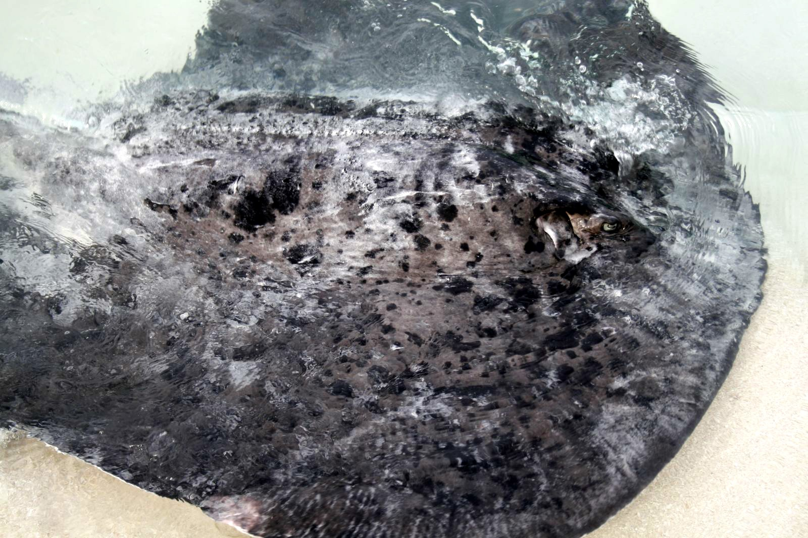 Baa Atoll. Reethi Beach Resort (RBR). Ray / Rochen